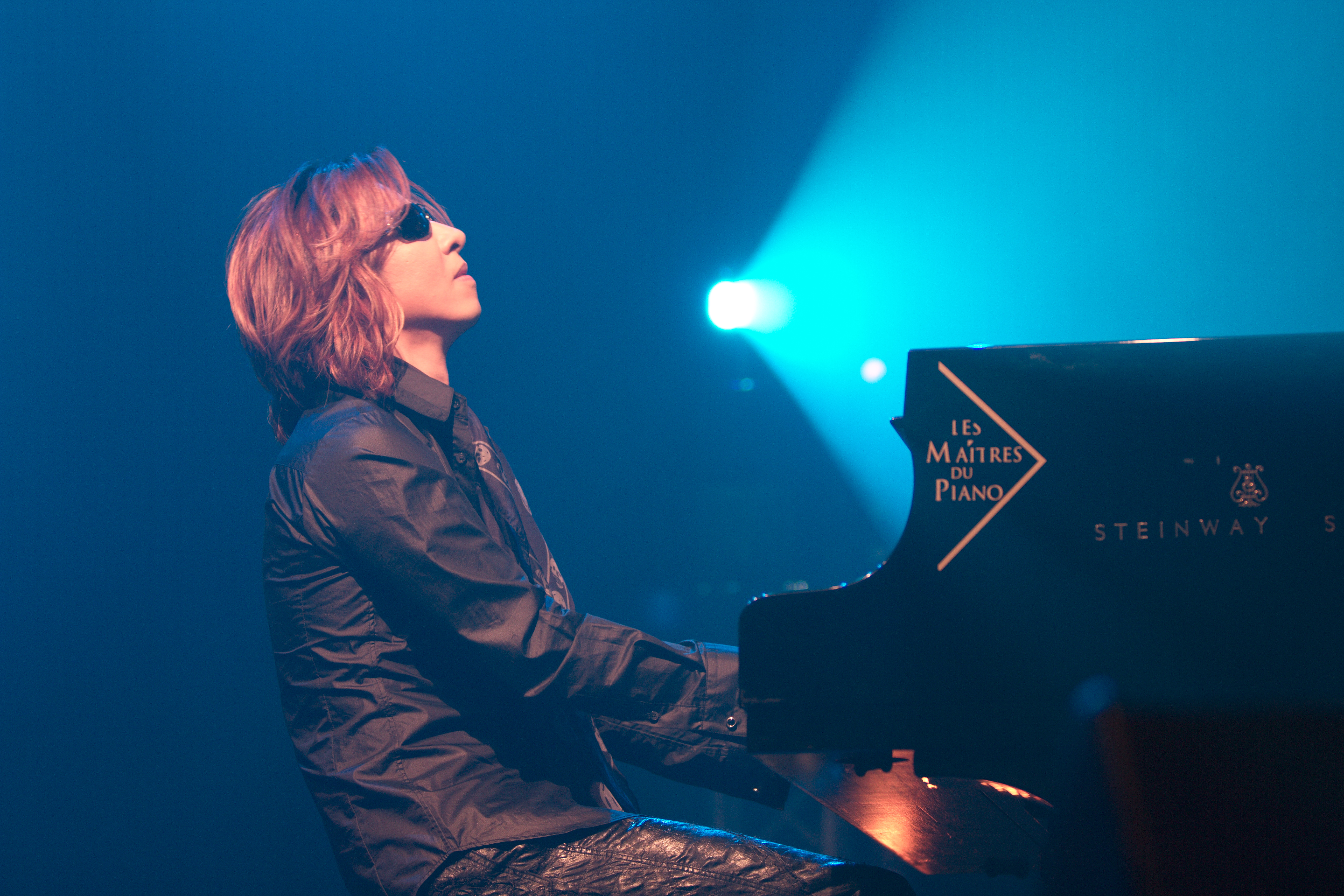 Toshi and Yoshiki, from X Japan, duets at Japan Expo 2010 (Paris, France).